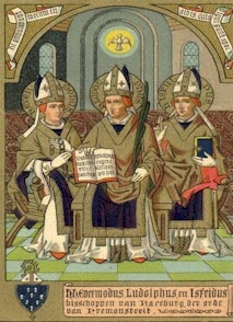 Artwork from Ratzeburg Cathedral, showing SS. Ludolph, Evermode and Isfrid